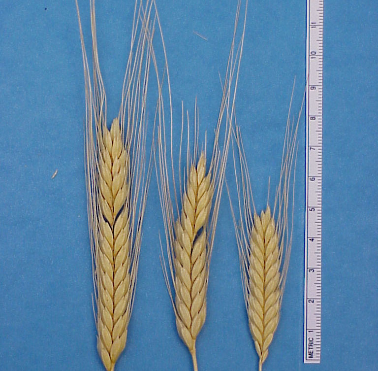 Spikes PI 10474 Triticum monococcum subsp. monococcum POACEAE Cultivar name: EINKORN. Collected in: Thuringia, Germany Source: National Plant Germplasm System (USDA/ARS)